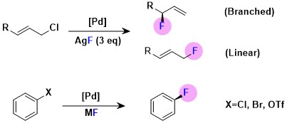 C-F Bond Formation by Pd (0)-Catalyzed Fluorination